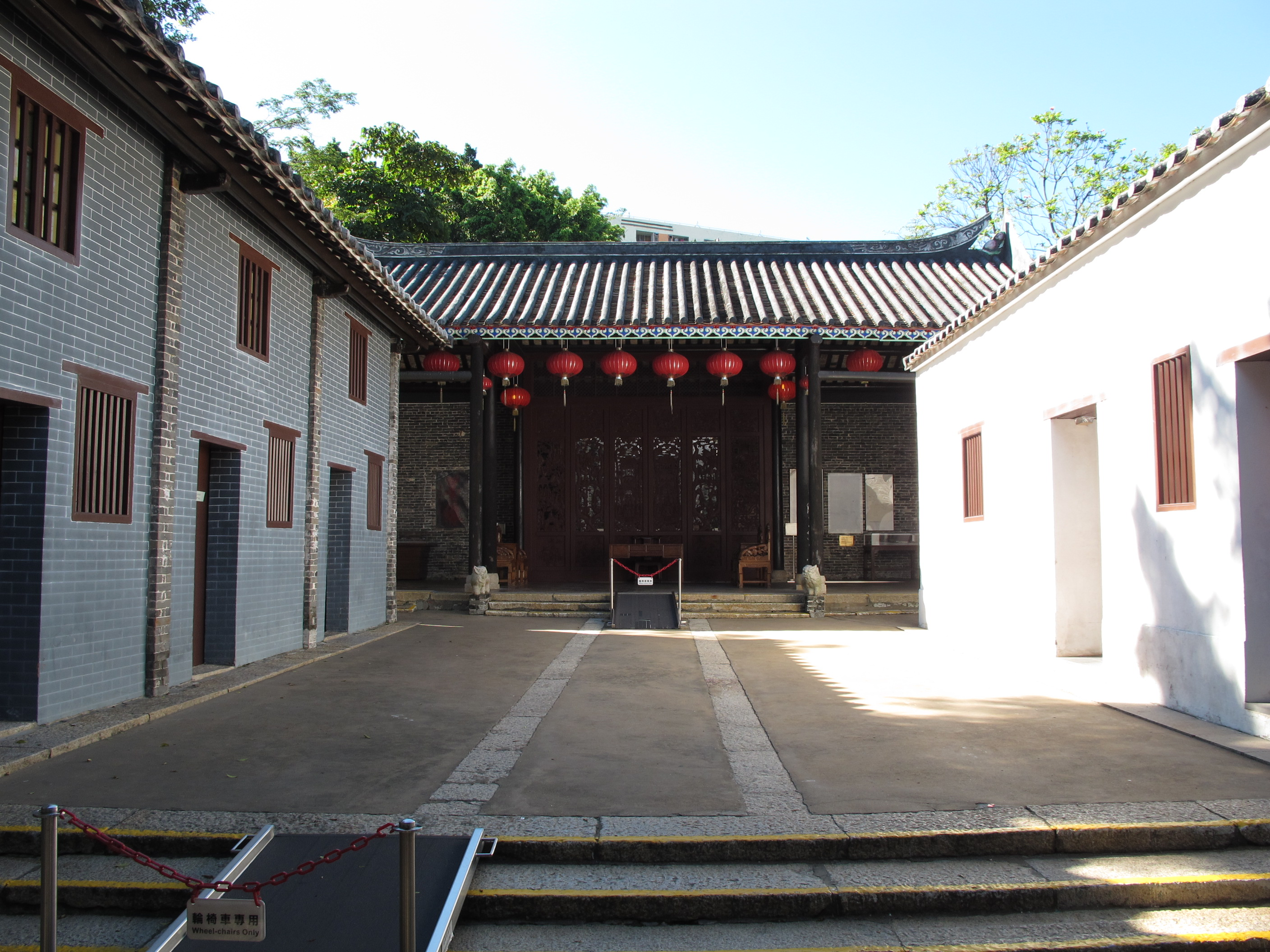 Former Yamen Building Interior